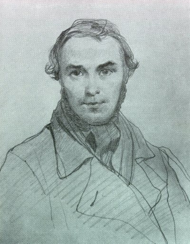 Self-portrait made in Potoky village, near Kyiv.